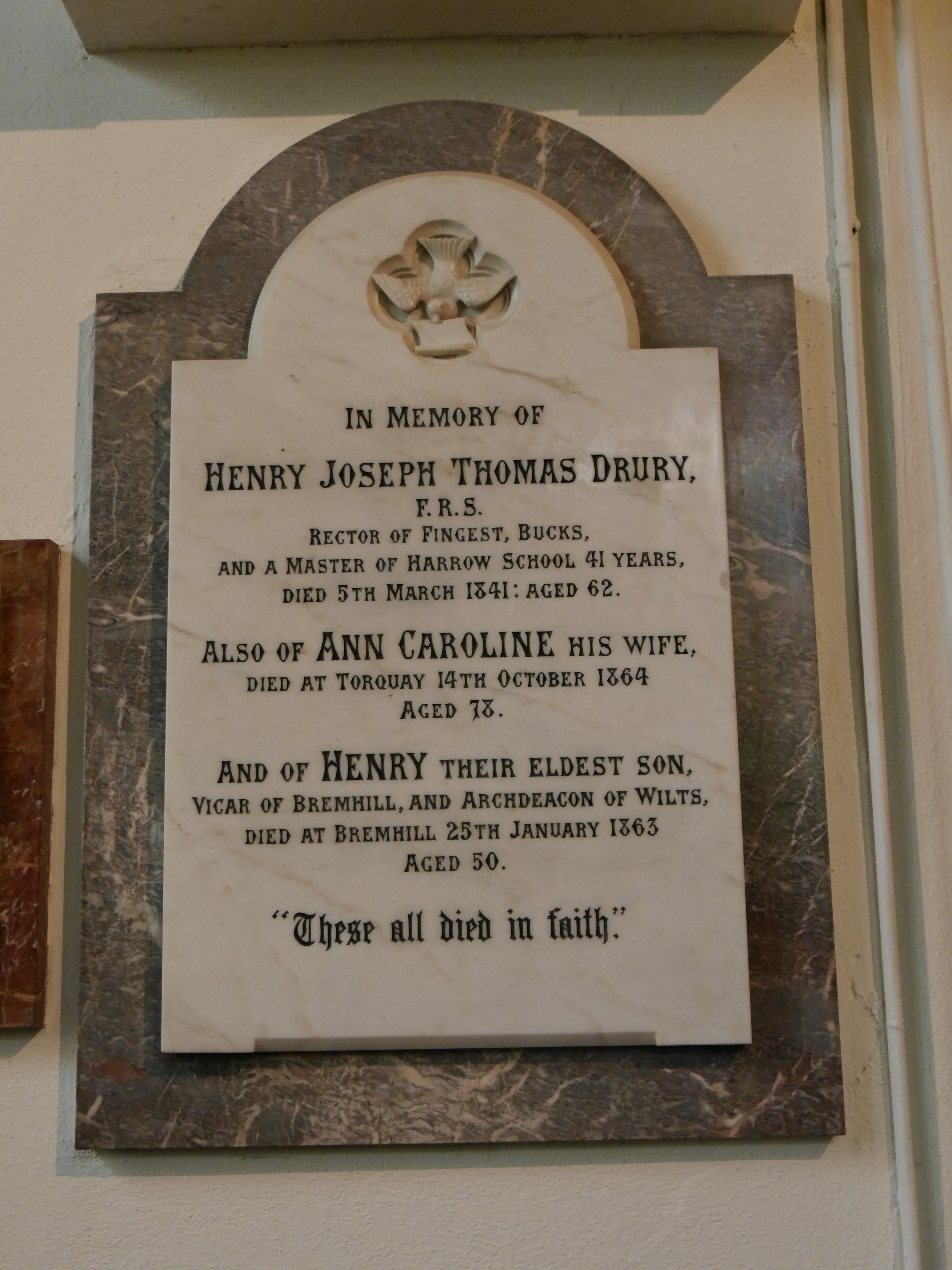 St Mary's, Harrow on the Hill, 2015